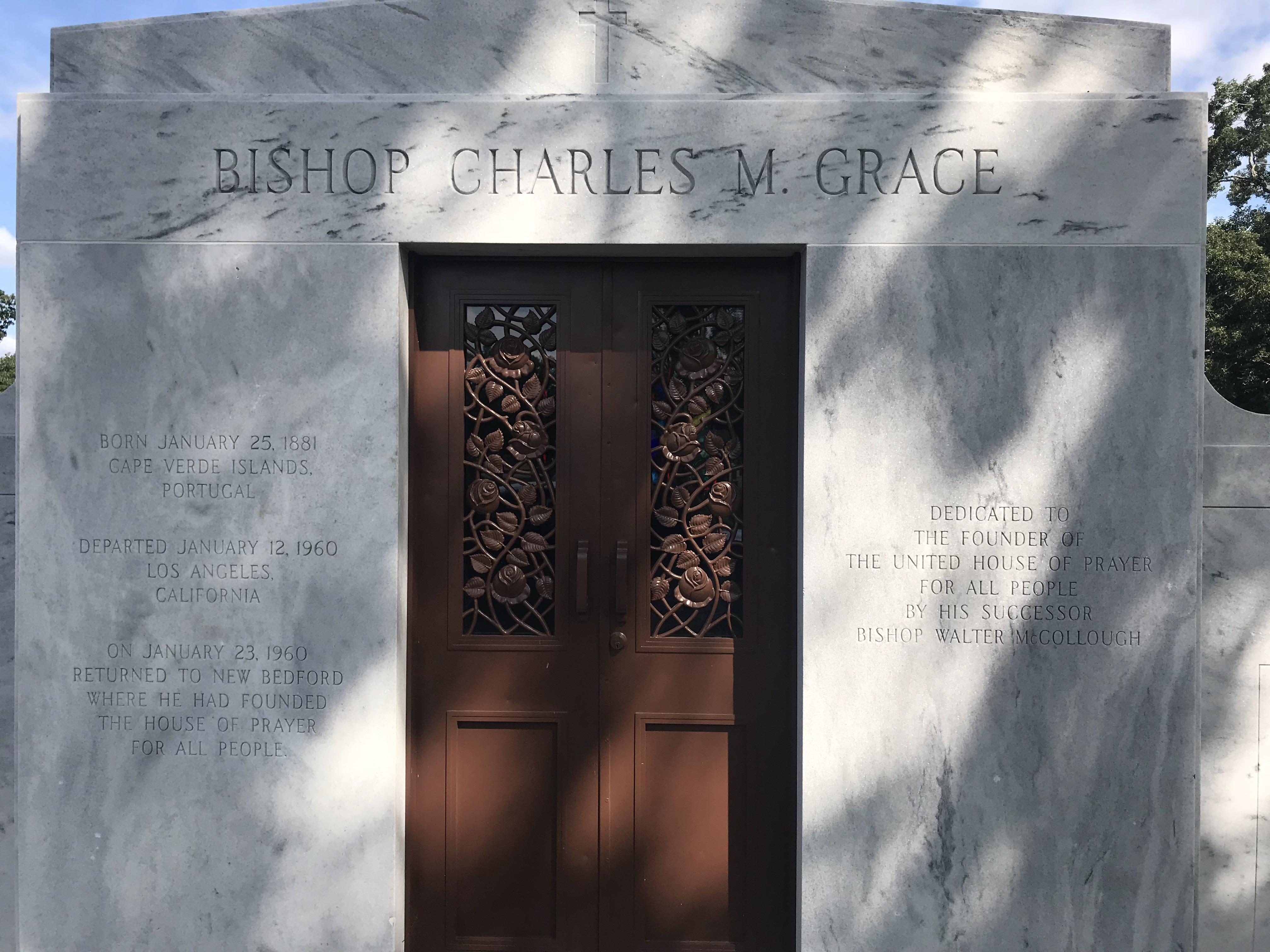 Exterior shot of the Marcelino Manuel da Graca Mausoleum, "Sweet Daddy Grace"